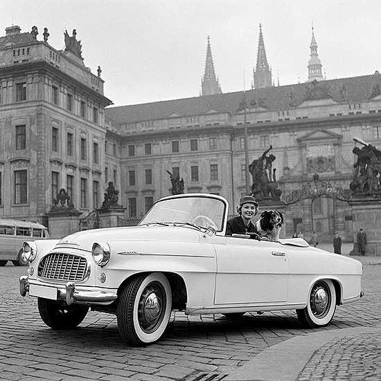 Škoda 450, Charlotte Sheffield, Miss USA 1957 on promotional photo for exporter Motokov, 1957